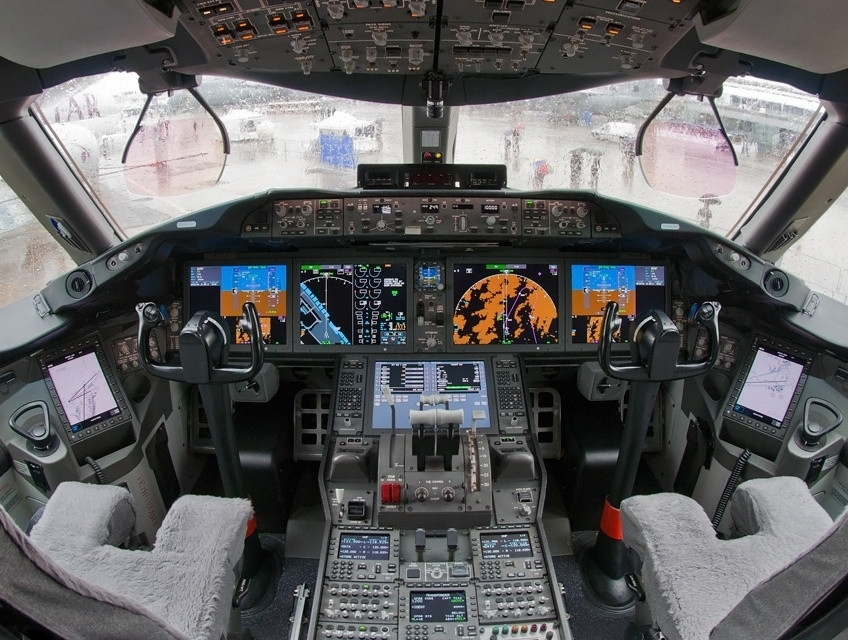 Flight deck of the Boeing 787-8 N787BA (cn 40690/1)